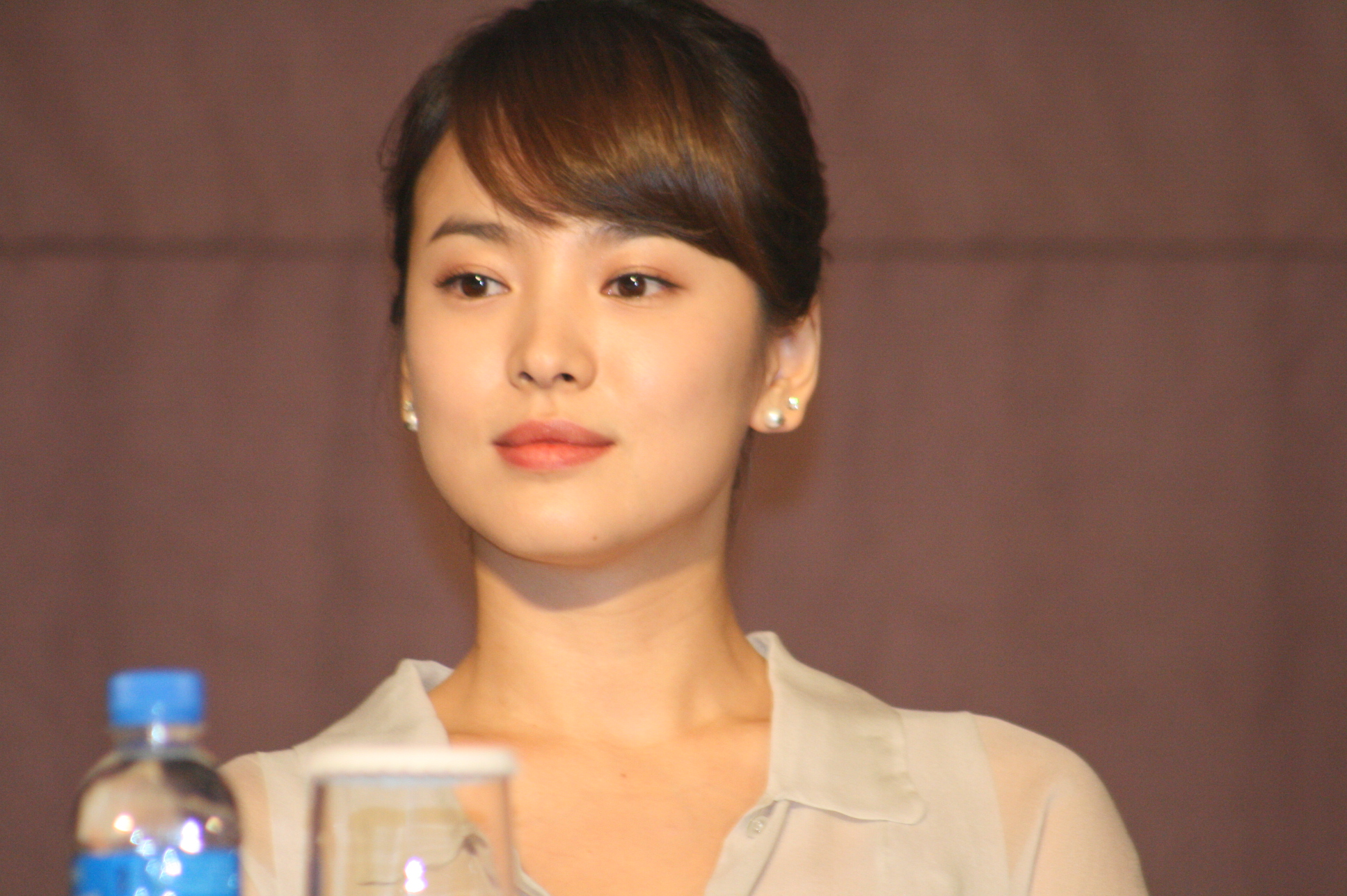 Song Hye-kyo in Worlds Within production presentation.